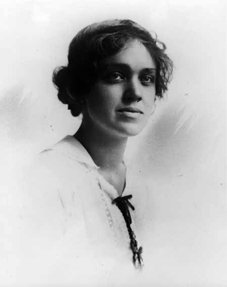 Agnes Smedley in San Diego 1914 Agnes Smedley Collection Acc. # 93-1116